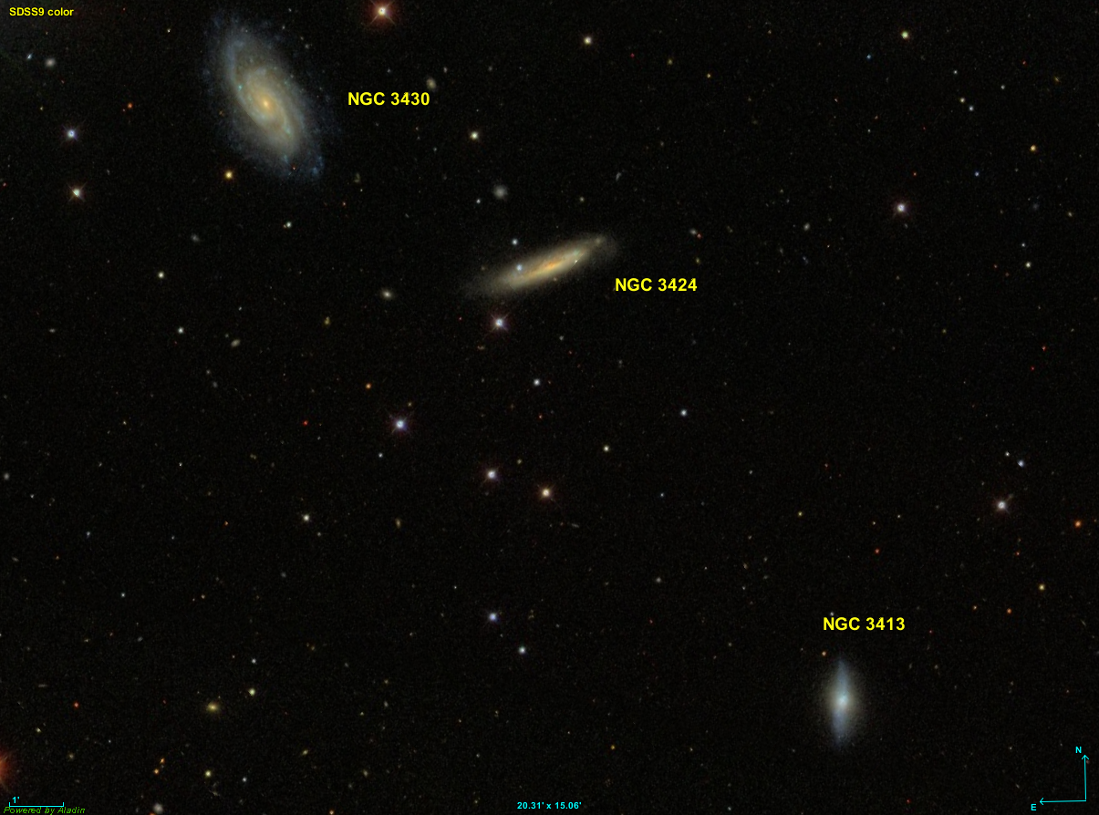 Image created using the Aladin Sky Atlas software from the Strasbourg Astronomical Data Center and SDSS (Sloan Digital Sky Survey) public data.